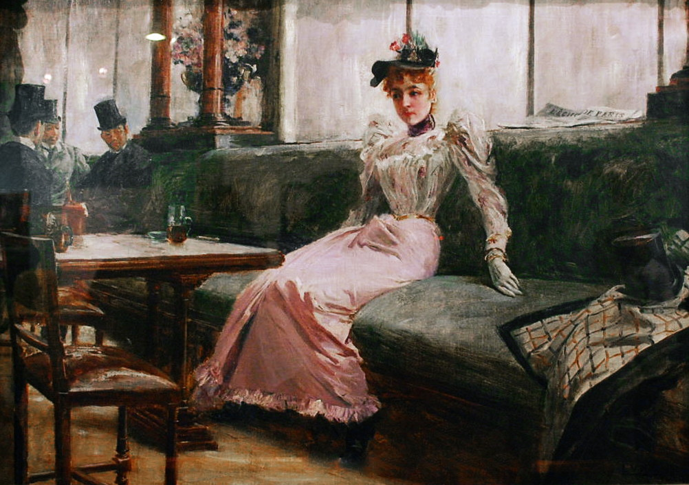 The Parisian Life (French: Interior d'un Cafi) painting by Filipino painter and political activist Juan Luna